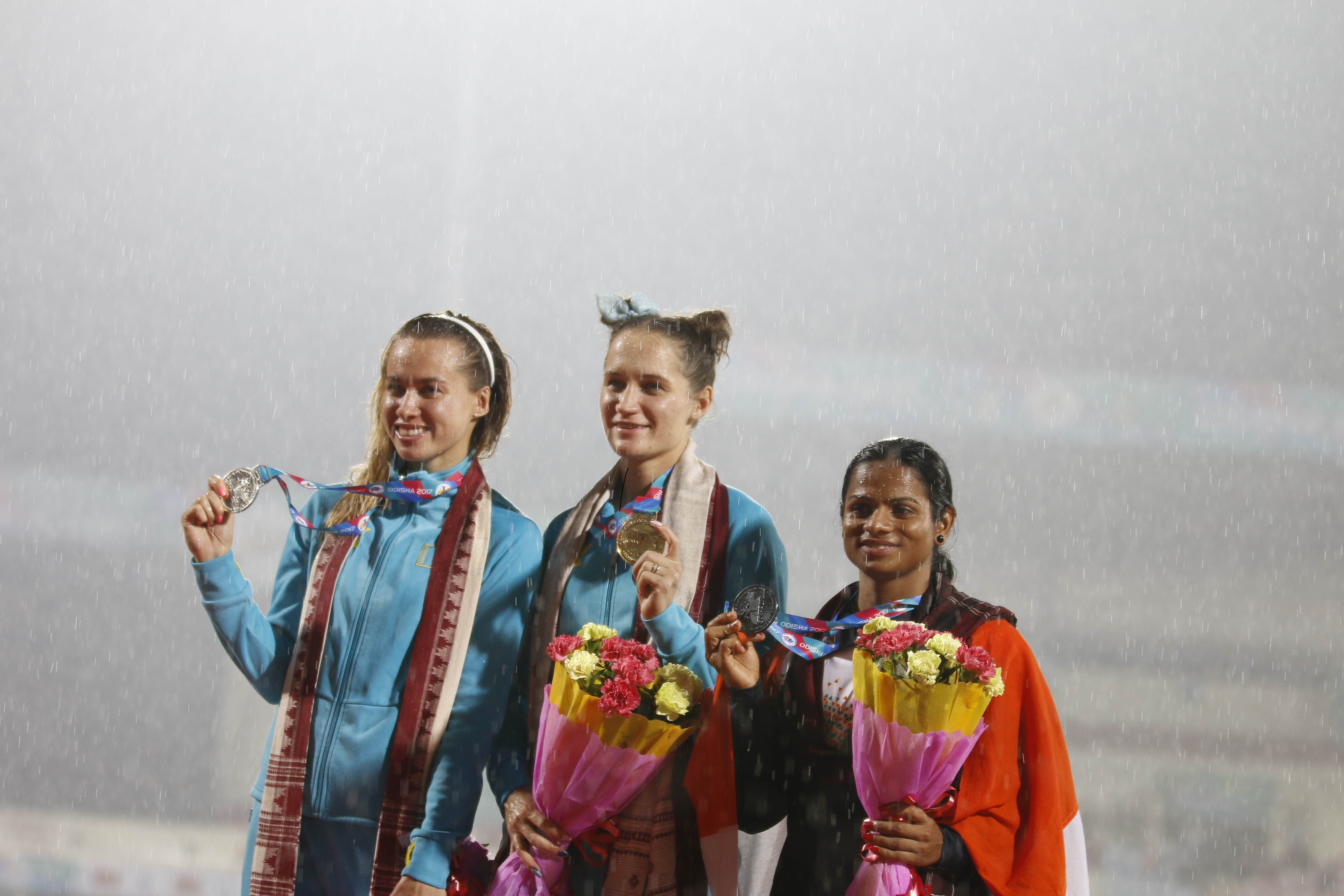 Viktoriya Zyabkin and Olga Safronova took the gold and silver medals with a timing of and Dutee Chand (born 3 February 1996) is an Indian professional sprinter and current national champion in the women's 100 metres event